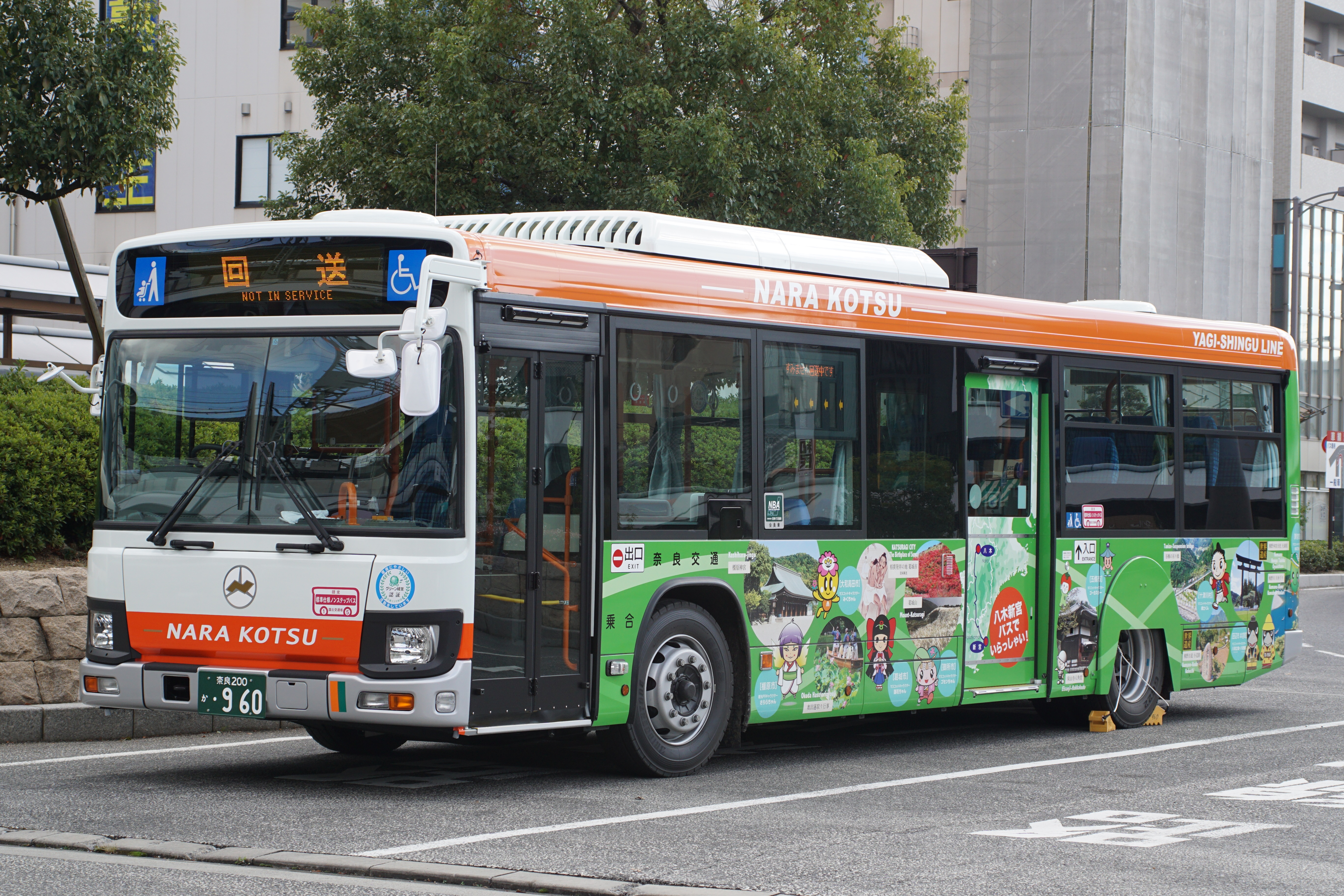 Second generation Blue Ribbon made of Hino Motors that has been introduced into the Nara Kotsu(QDG-KV290N1). Photo Taken at Yagi Station.